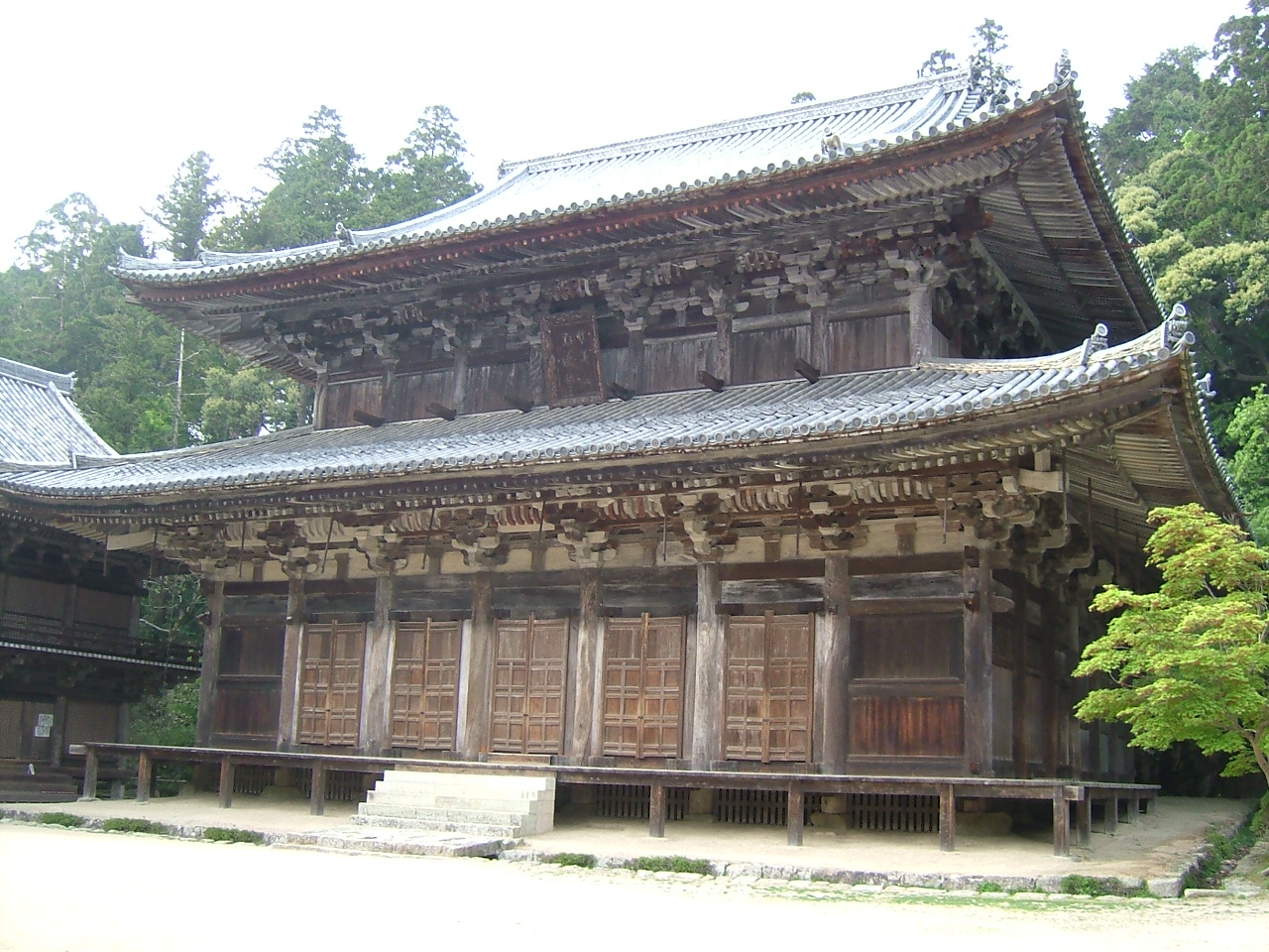 This is the Shoshazan Engyo-ji in Himeji, Hyogo Prefecture, Japan. I took this photo with a digital camera in May 2005.